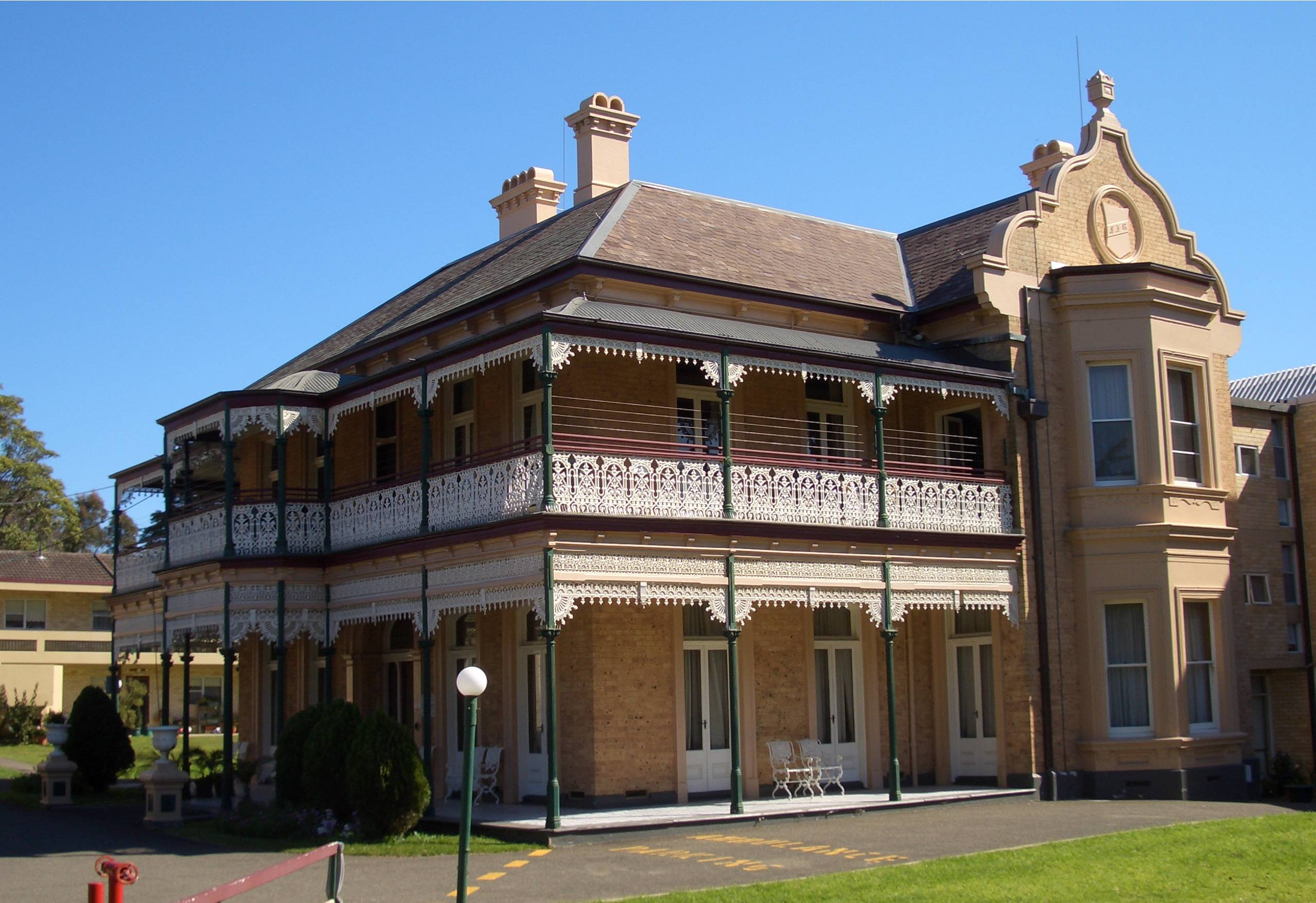 Arncliffe, Sydney, Australia.